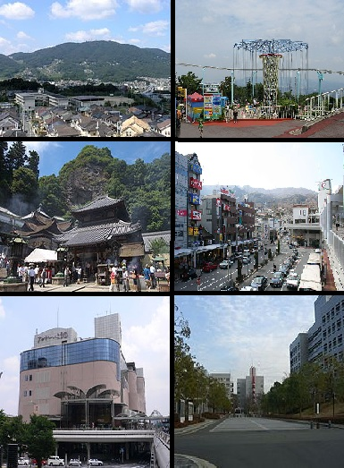 Ikoma montage